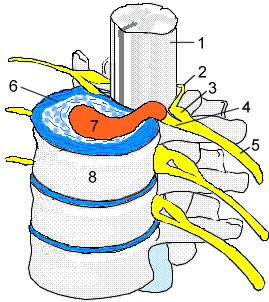 Scheme of a discus prolaps: spinal cord dorsal root dorsal root ganglion ventral root spinal nerv intervertebral disc intervertebral disc annulus fibrosus nucleus pulposus vertebral body